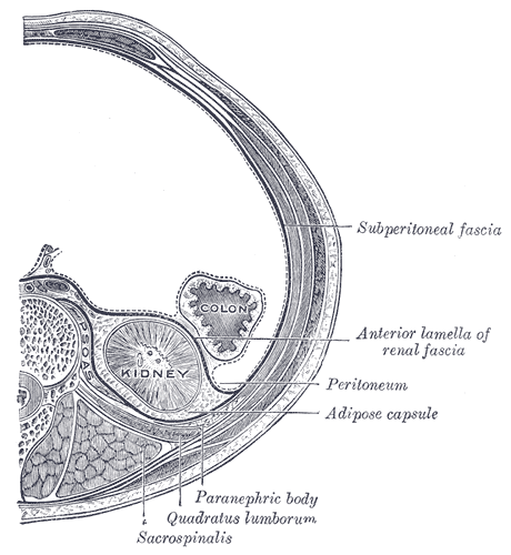 Transverse section, showing the relations of the capsule of the kidney. (After Gerota.)